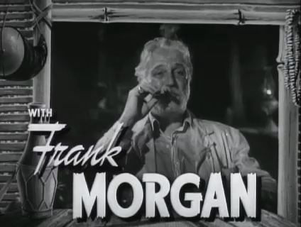 Frank Morgan in a trailer for White Cargo (1942), a film by Richard Thorpe.